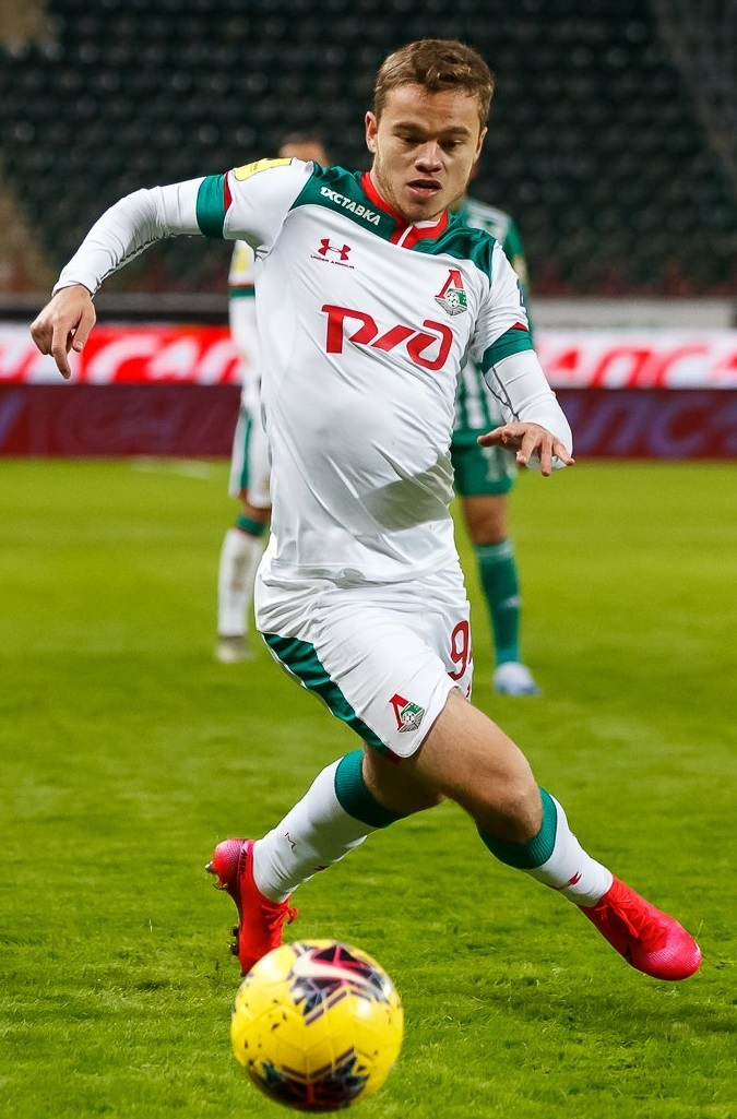 Dmitry Rybchinsky with FC Lokomotiv Moscow in a game against FC Akhmat Grozny.